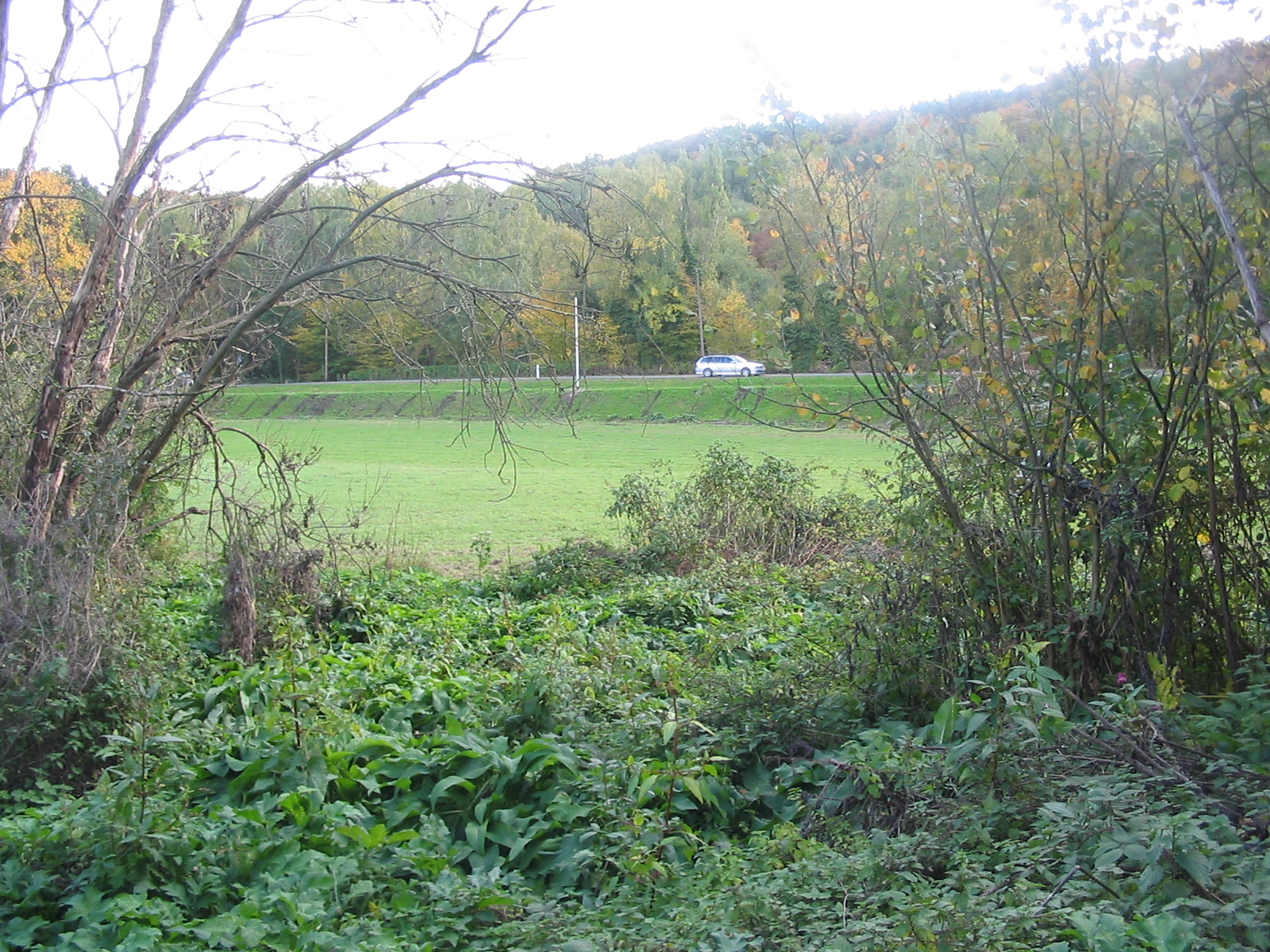 Former storage for coal of Zeche Nachtigall in Witten